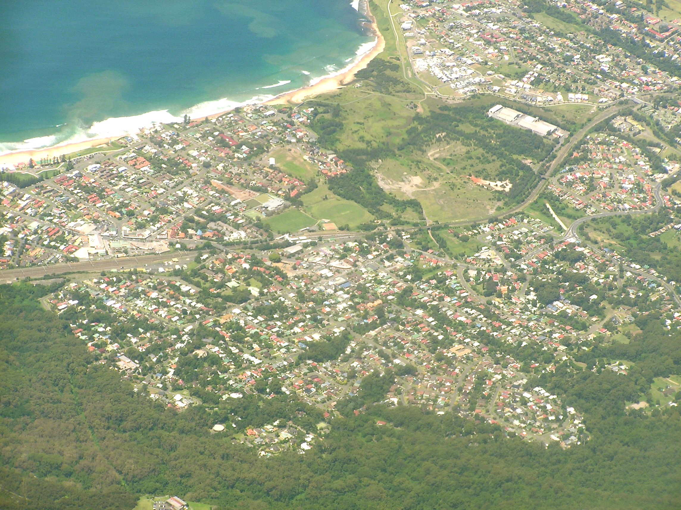 Areial photo